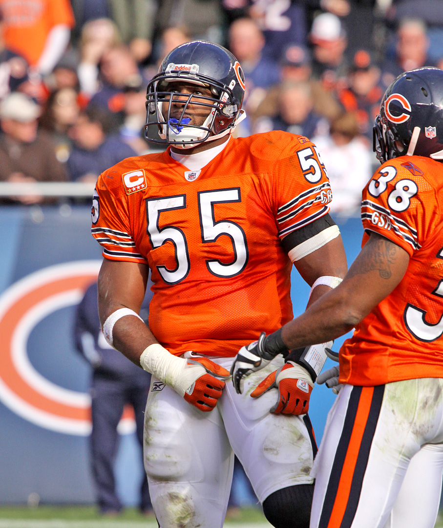 Lance Briggs, of the Chicago Bears, in action during the Bears game against the Cleveland Browns on November 1, 2009 in Chicago, Illinois.